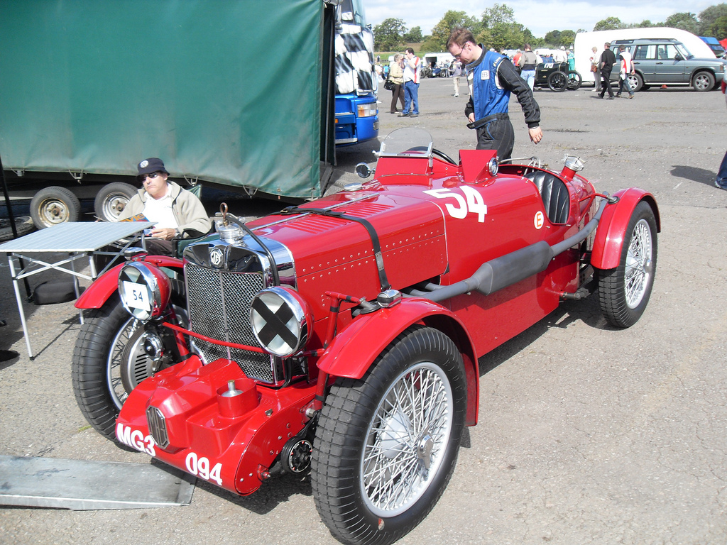 A very well-kept example of the nippy MG K3 sportscar. The MG-embossed bulge on the front 'bumper' indicates the supercharged engine. This example, a regular at almost every VSCC race meeting, is driven by American Peter Fenichel 1st reg March 1934 1087 cc